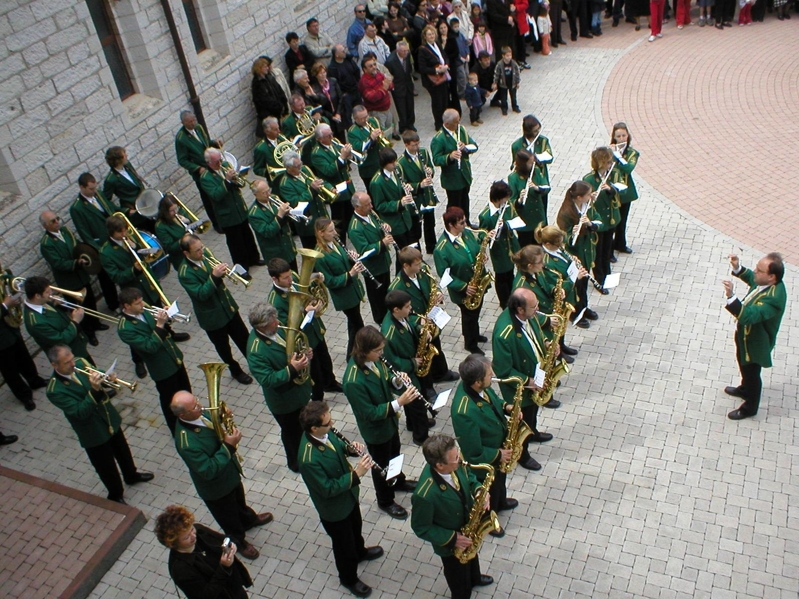 Wind Orchestra of the City of Pula